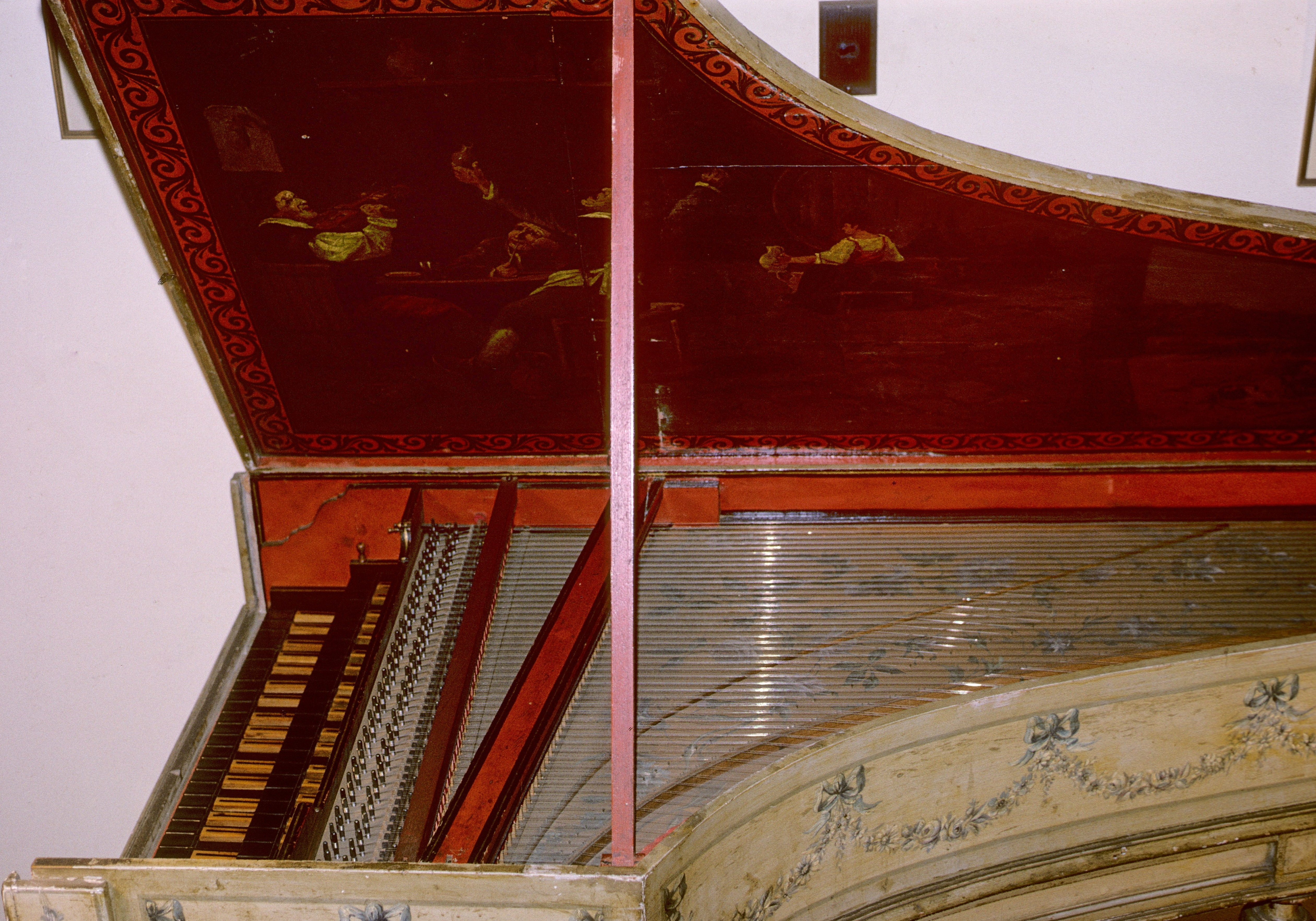 Decorated with a beautiful Flemish painting, ornamental frame and garlands.Part of the Hans Adler Instrument Collection Other information Part of the Witwatersrand Hans Adler memorial keyboard collection Captioned As PageCaptionHans G. Adler1750 Italian 2 manual Harpsichord